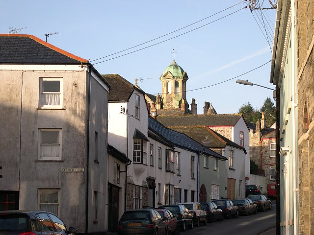 Lostwithiel Town Centre. The green dome above the houses belongs to a large Methodist Church.